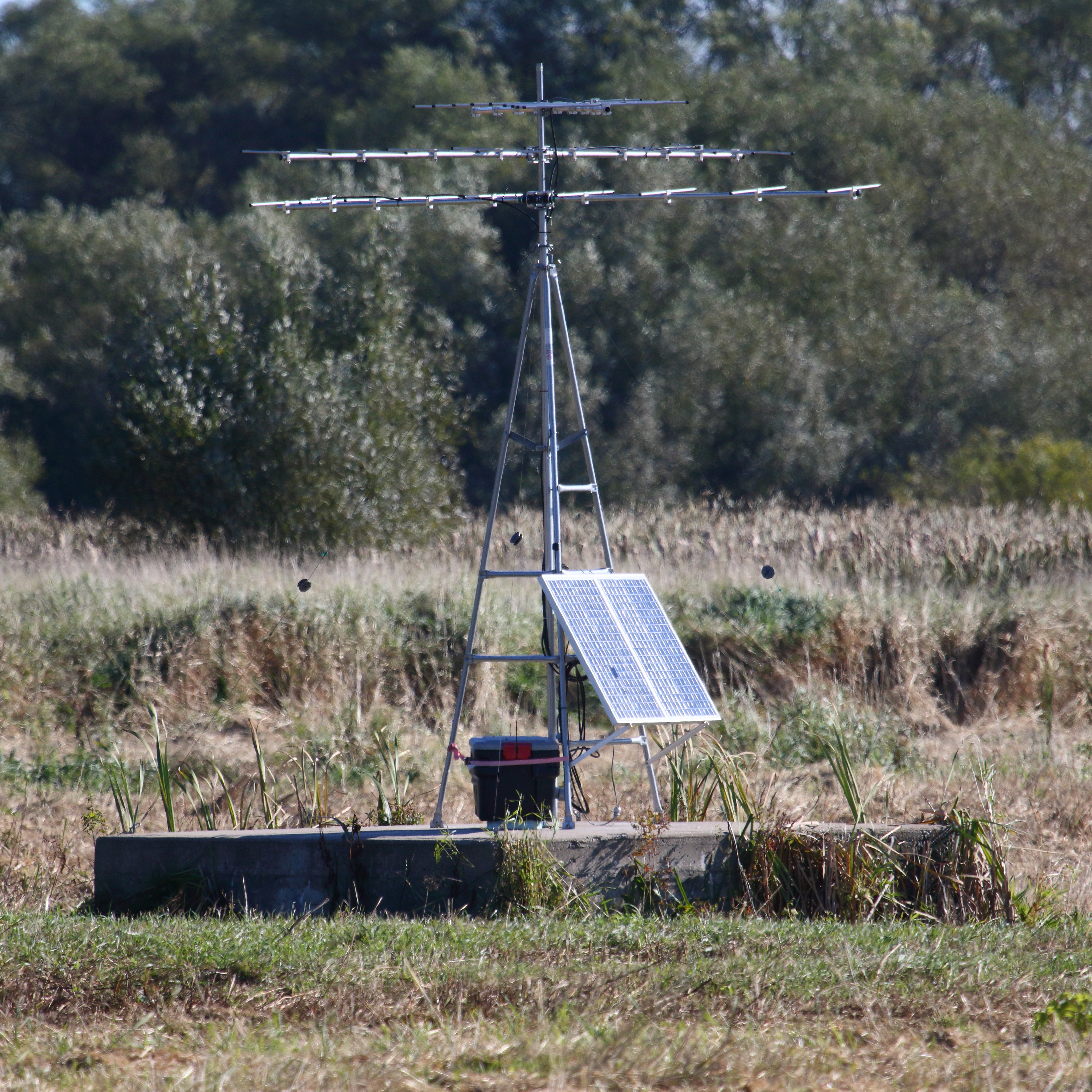 Antenna of the Motus Wildlife Tracking System in the Cap Tourmente National Wildlife Area, Quebec, Canada